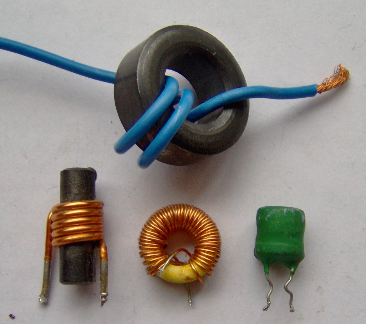 Electronic component - various small inductors